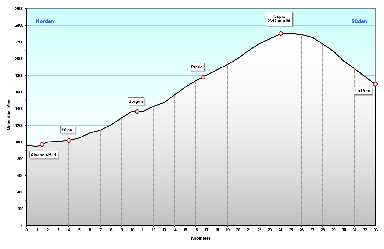 Profil of Albulapass, Switzerland